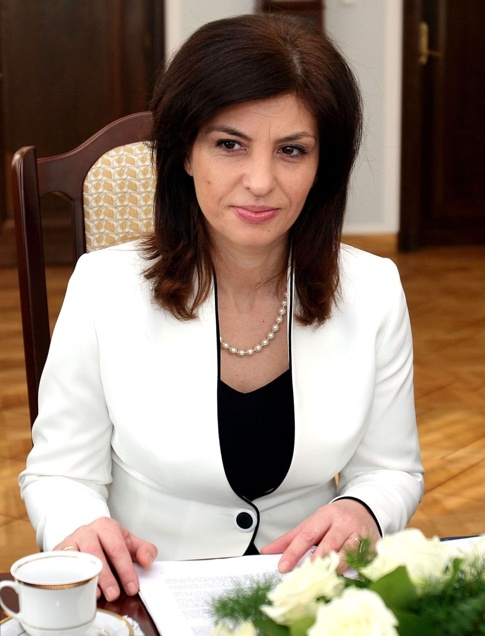 Chairwoman of the Parliament of Albania Jozefina Topalli in the Polish Senate